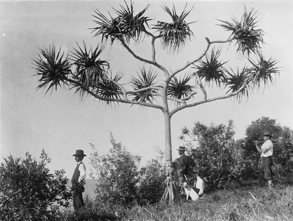 Creator: Unidentified Location: Caloundra, Queensland Description: On 8th April 1863, the ship 'Queen of the Colonies' sailed into Moreton Bay. A woman passenger had died and it was decided to take her body to Cape Moreton for burial. While returning a storm arose. The ship was lost to sight, and the small boat was driven to the rocks below this spot. The survivors were marooned for 14 days, living on shellfish and berries until rescued by a search party from Brisbane. One of the sailors carved the name 'Queen of the Colonies' on the pandanus tree. This led to their rescue. The original pandanus tree trunk is in Newstead House, Brisbane. (Description supplied with photograph.) View this image at the State Library of Queensland: Information about State Library of Queensland’s collection: You are free to use this image without permission. Please attribute State Library of Queensland.